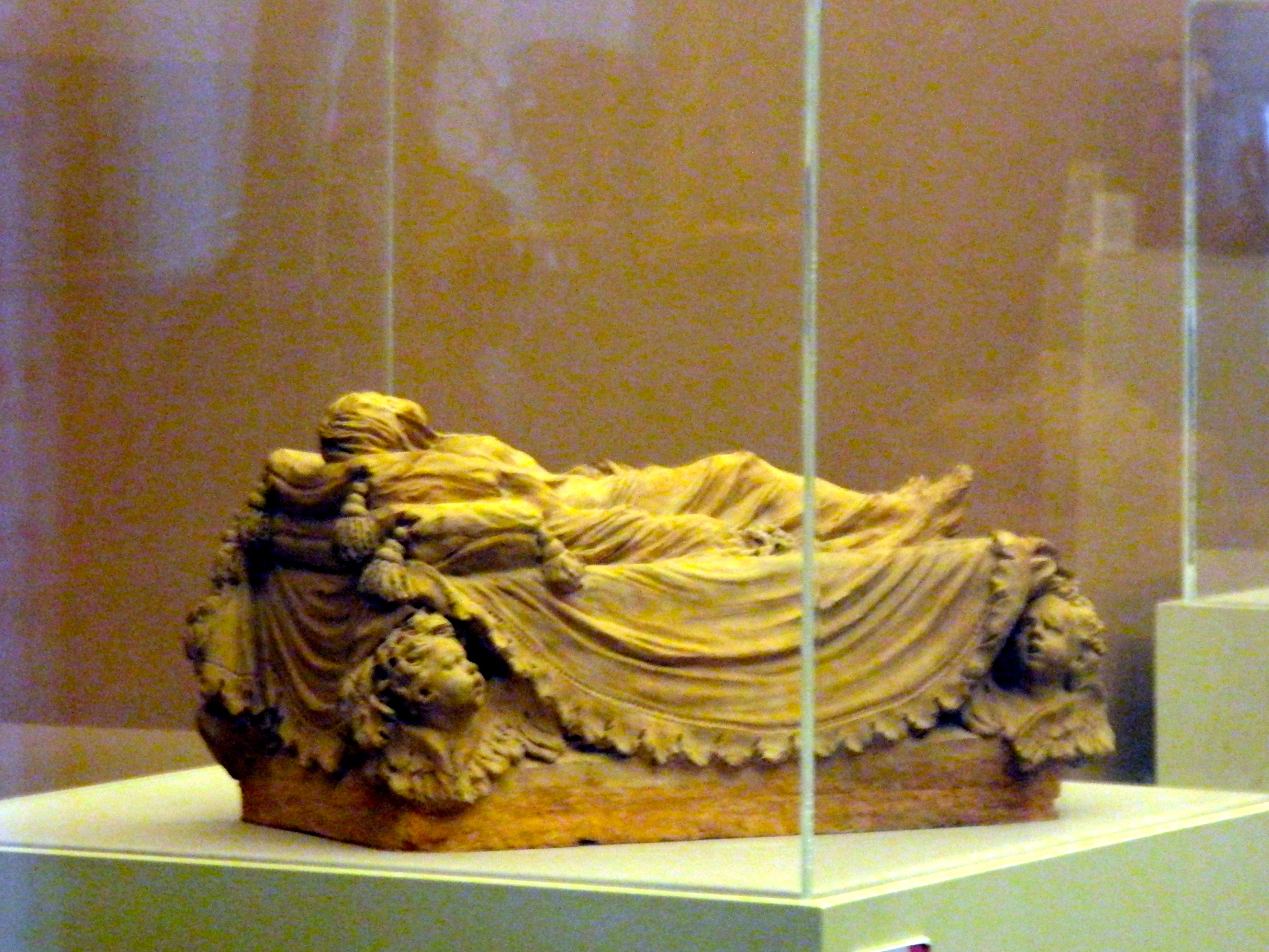 Bozzetto del Cristo Velato di Antonio Corradini - Museo nazionale di San Martino (Napoli)